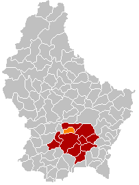 Own edit of Kanton LuxemburgLocatie.png